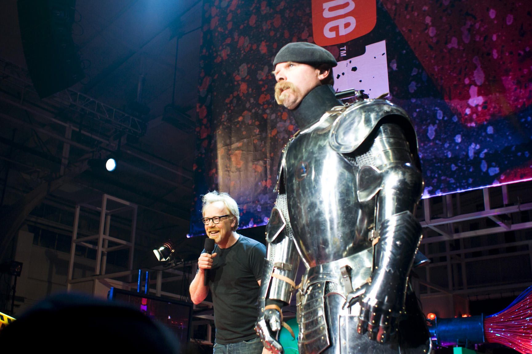 Discovery Channel's MythBusters blast Adam with 20,000 paintballs with Leonardo 2.0 at YouTube Live 2008.